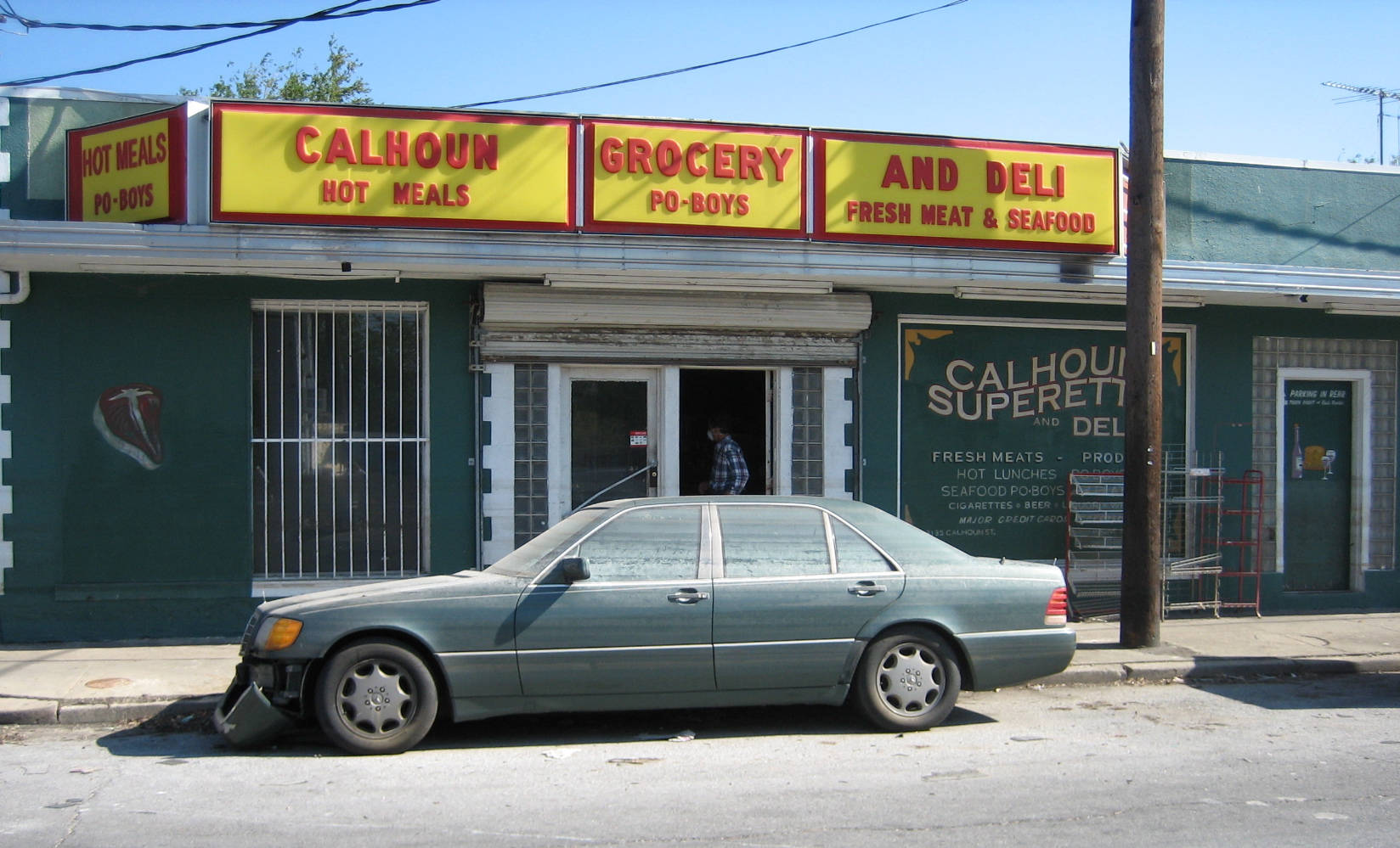 New Orleans after Hurricane Katrina: Calhoun Street, Uptown. Calhoun Grocery, flooded to sholder height, with flood disabled car out front. Man in dust mask stands in doorway taking a look inside.